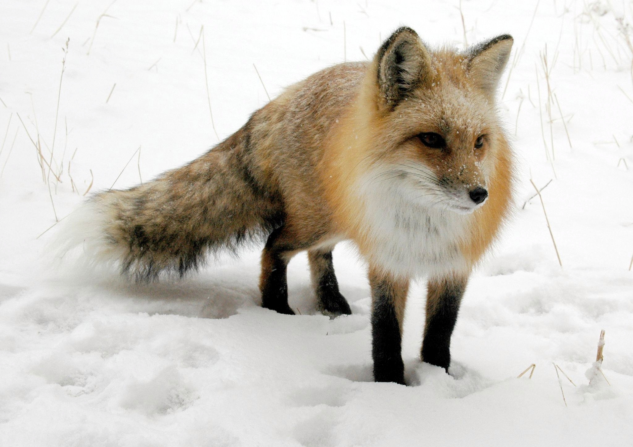 Tatiana's photo of Freddy the Fox (V. v. macroura)